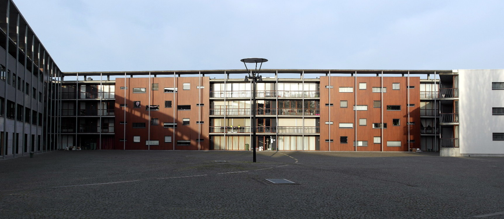 Maastricht, the Netherlands. View from the south of Herdenkingsplein in the central neighbourhood of Kommelkwartier. The apartment block on the westside was designed by Erick van Egeraat (then working for Mecanoo) in 1993.